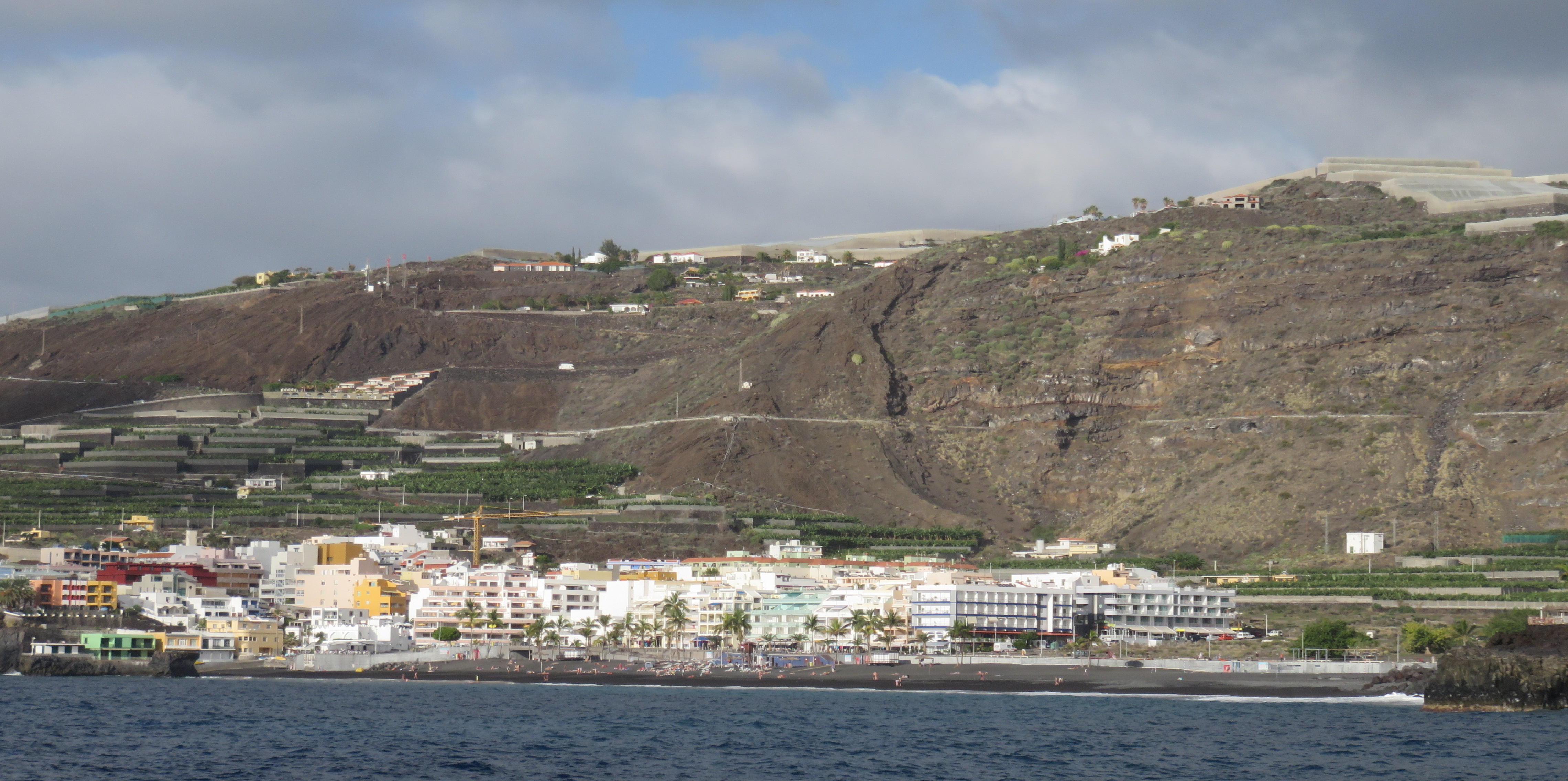 Puerto Naos, La Palma